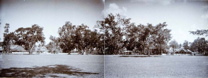 Alun-alun, Rangkasbitung